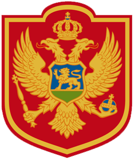 Logo of Military of Montenegro.